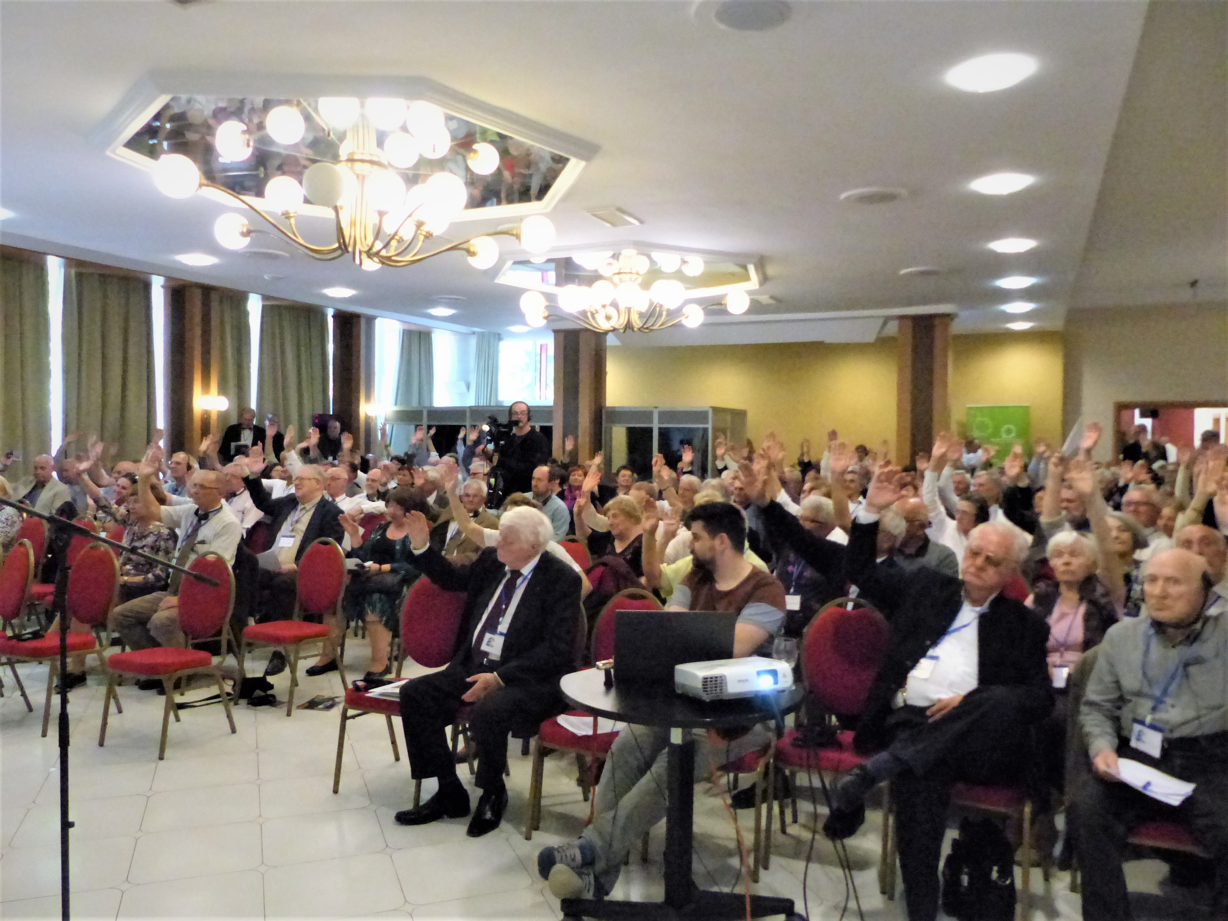 The founding of EuCET. Taken on the 25th of April, 2019. Benczur Szálloda, Terézváros, Budapest.